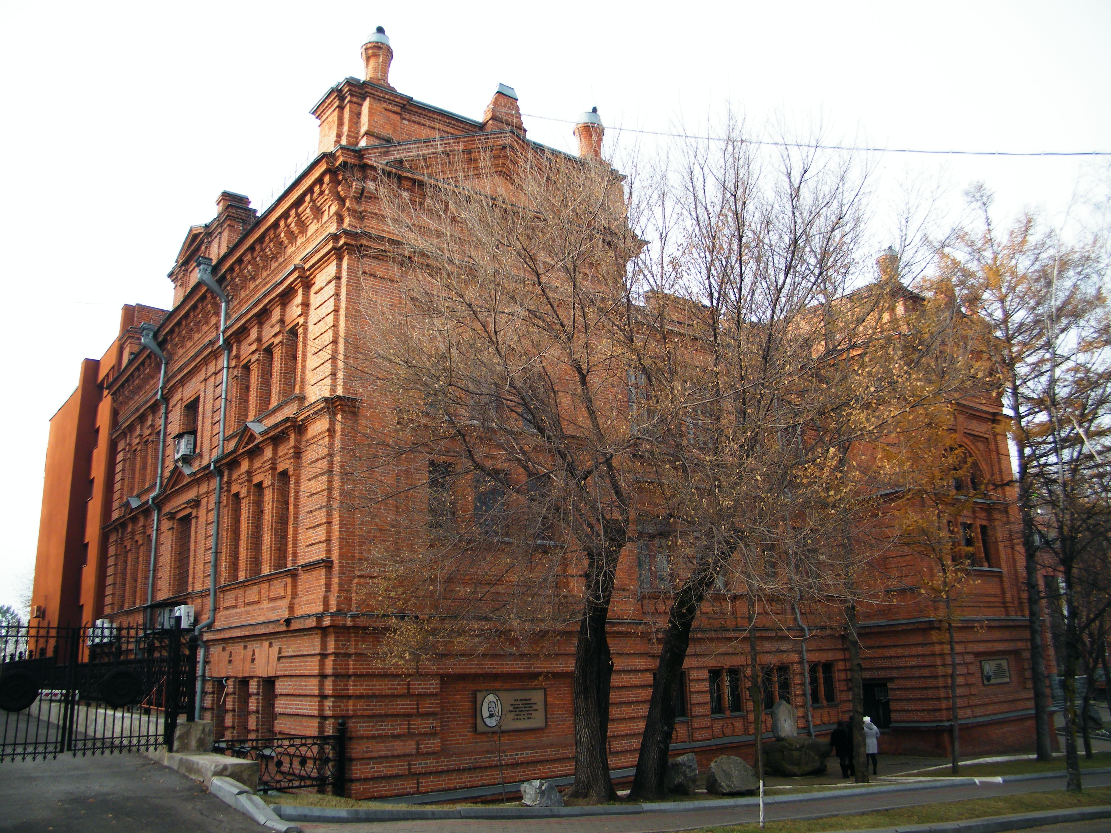 Khabarovsk Krai Local Museum